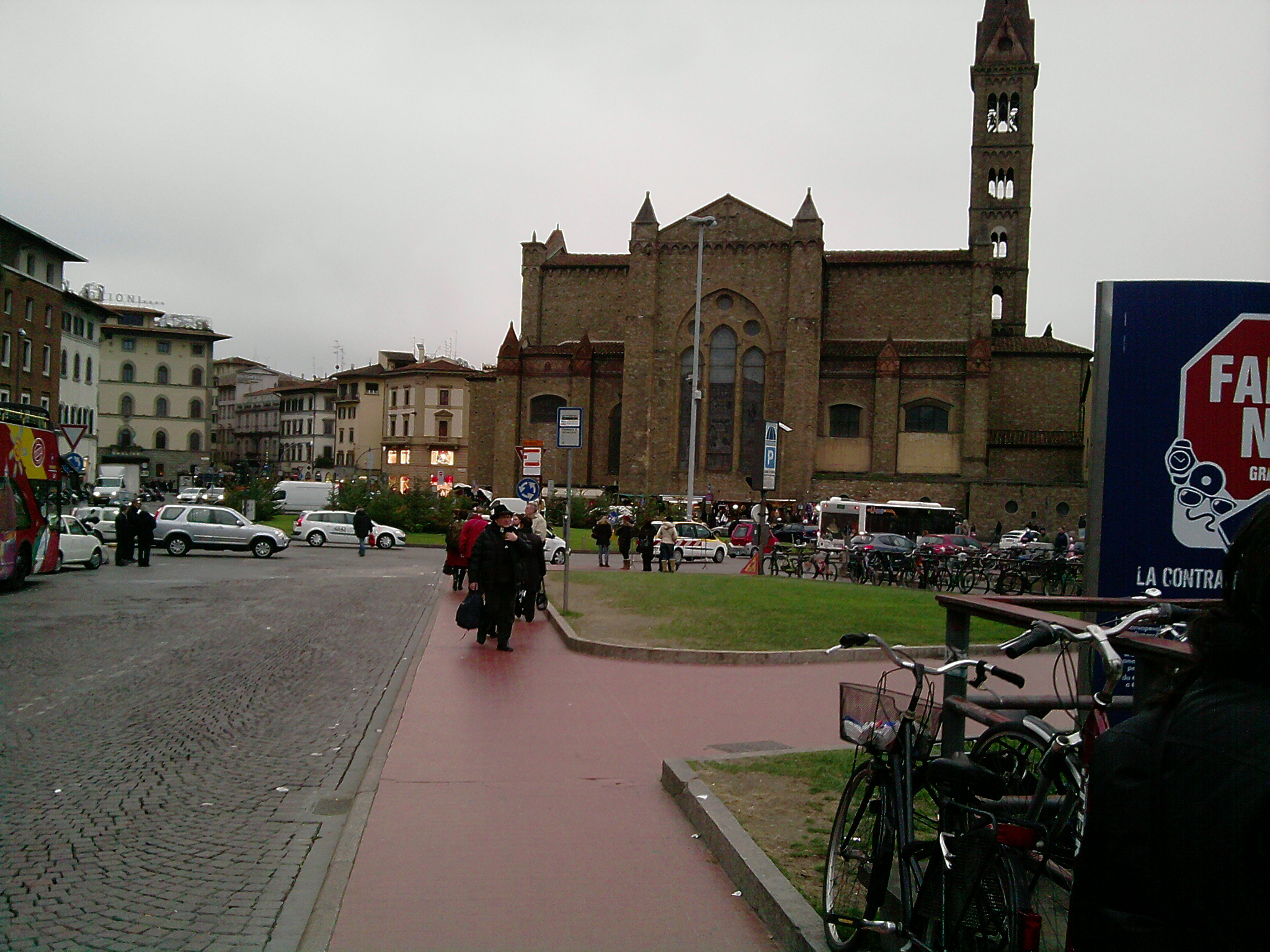 Piazza della Stazione (Florence)